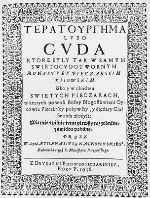 Title page of work Athanasius Kalnofoysky "Teraturgema" in 1638.